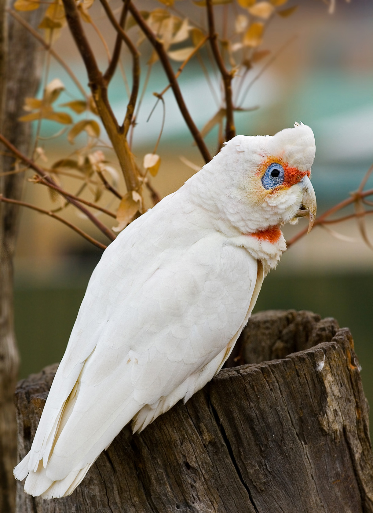 A Perched Long-billed Corella (Cacatua (Licmetis) tenuirostris) . Feather highlights darkened slightly to better show texture.